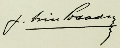 Signature of Joaquín Nin Posadas (1871 - 1923), an Argentine physician and teacher.